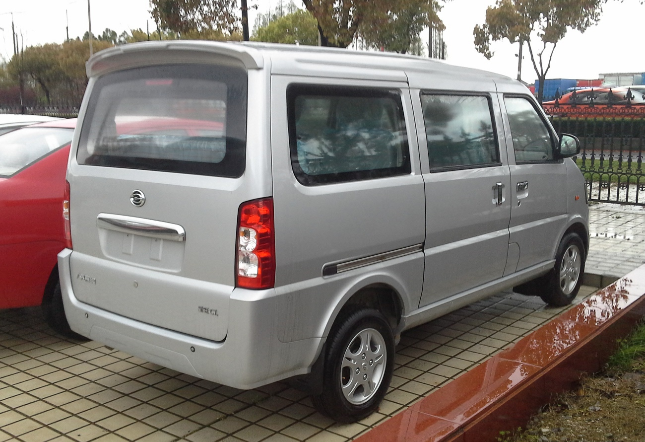 Gonow Xingwang CL photographed in Shanghai, China.